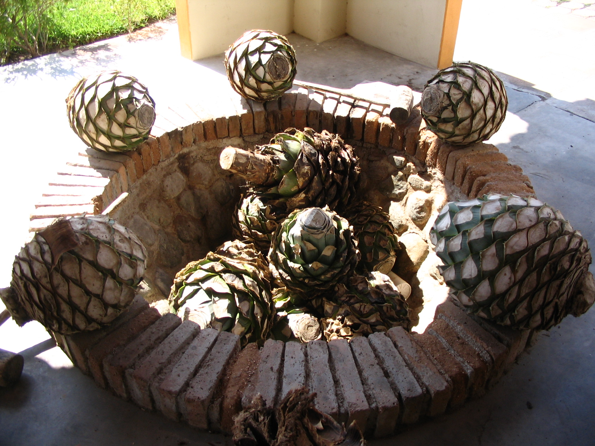 Hearts of tequila or blue agaves before being heated to remove the sap. These hearts are also known as pineapples.